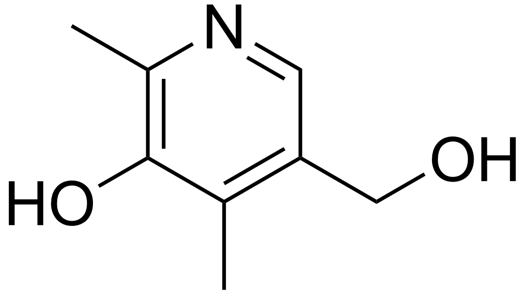 Chemical structure of 4-deoxypyridoxine